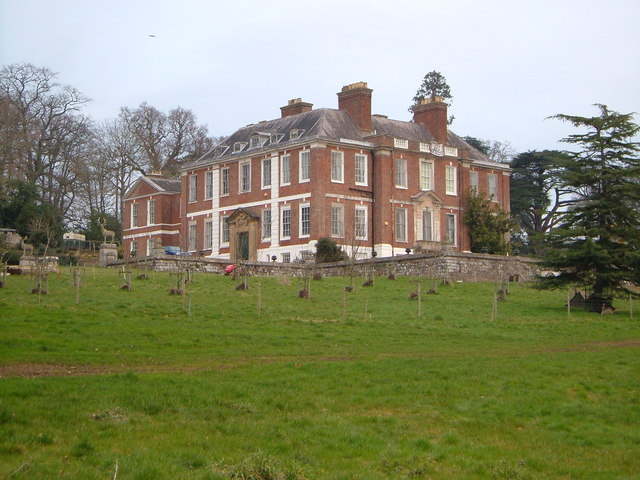 Pynes. A house overlooking the Exe valley, built about 1700 - seen here are the west and south facades. Taken from the Exe Valley Way.